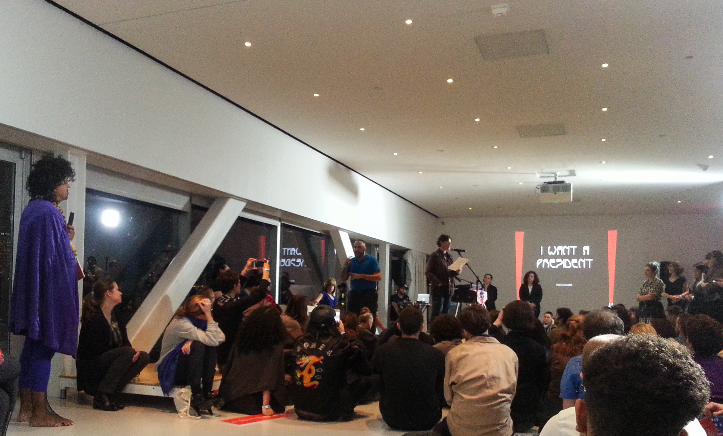 Artist Zoe Leonard reading her poem, "I want a president" at My Barbarian's Post-Party Dream State Caucus performance at the New Museum in New York. This is the second of three events hosted by the New Museum, as part of My Barbarian's Post-Living Ante-Action Theater (PoLAAT).